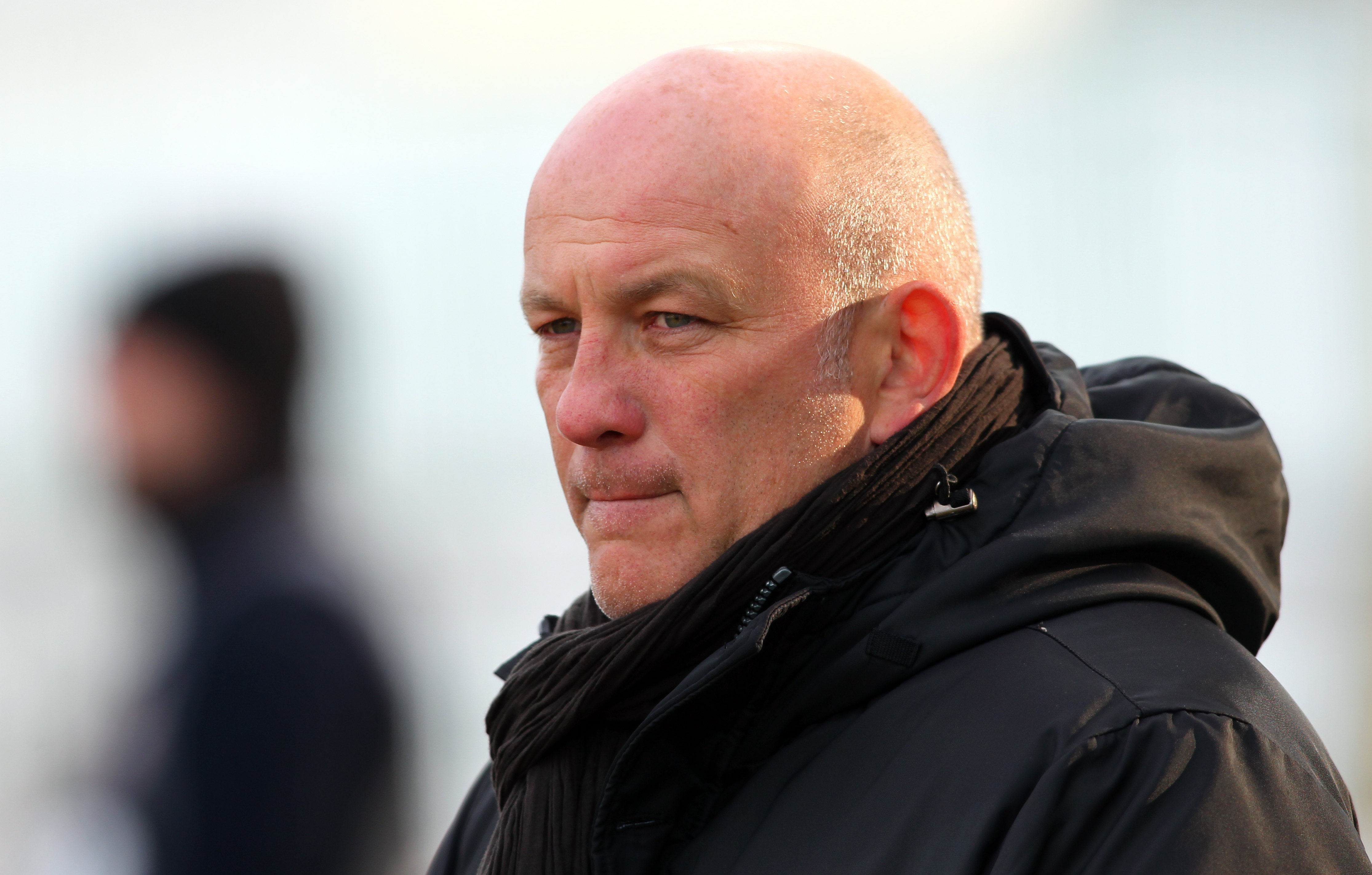 Theo Bos in charge of Polonia Warszawa